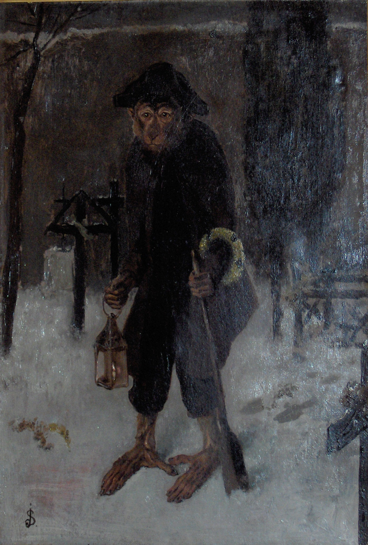 Croque-Mort (no date; zonder datum) (Singerie: monkey dressed as a gravedigger)